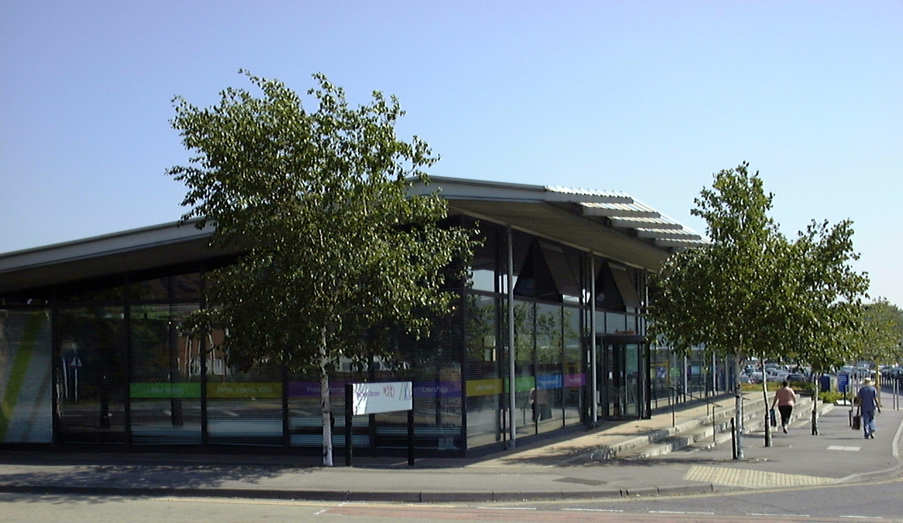 The public library in Tadley, Hampshire, England. The picture was taken under conditions of sun and clear sky at approximately 09:30 UTC. The equipment used was a Toshiba PDR-M1 in Auto mode. The original picture was cropped from the bottom to remove excess foreground.